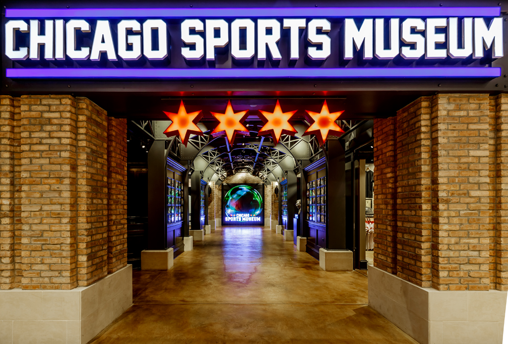 The entrance for the Chicago Sports Museum and adjacent Harry Caray's Seventh Inning Stretch Restaurant